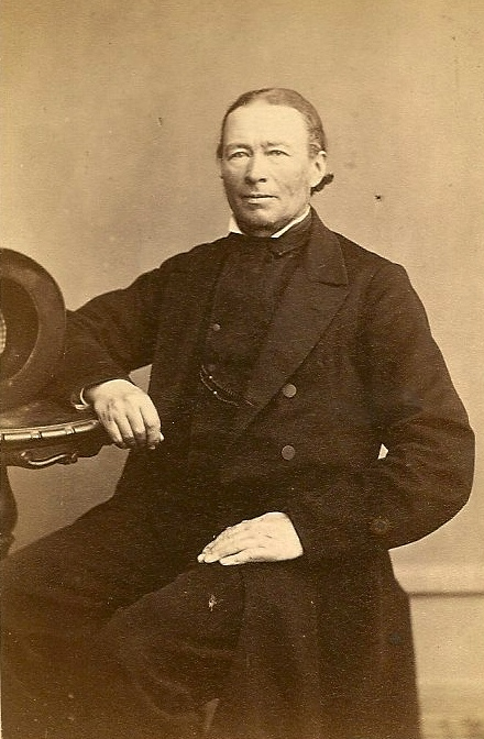 Swedish politician from late nineteenth century